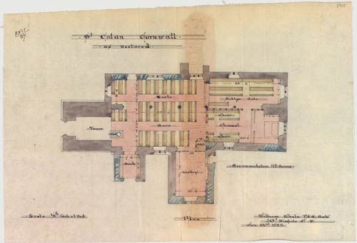 Ground plan of St Colan Church, Cornwall, prepared by William White (1825-1900) in 1885